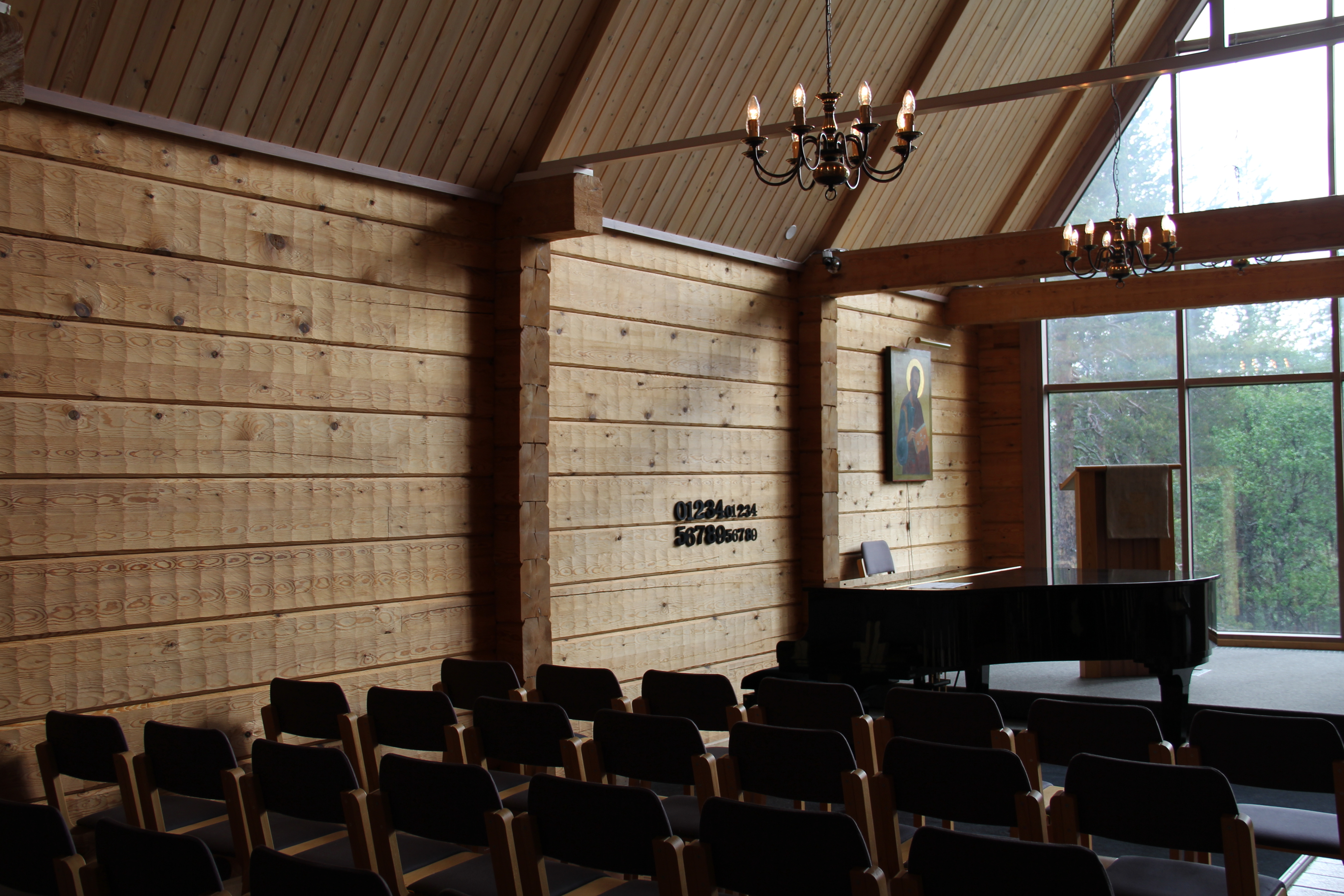 Saariselkä chapel, Inari, Finland. - Interior.